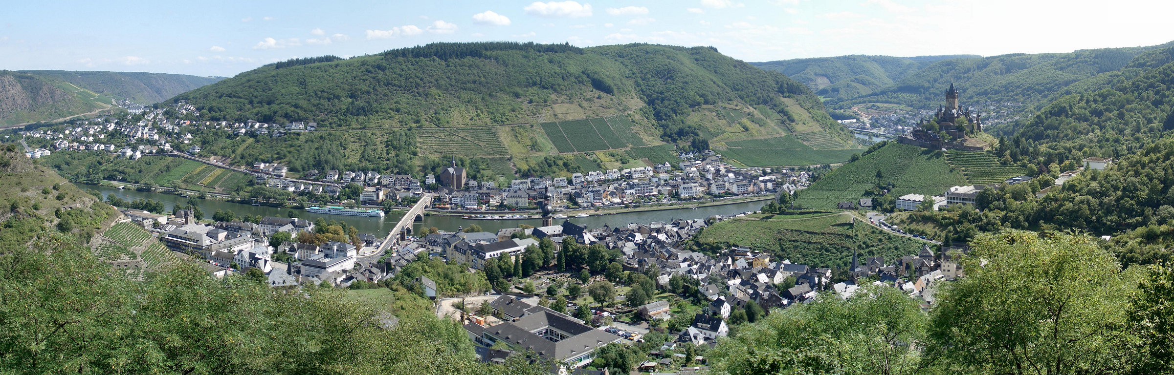 Cochem and Reichsburg Cochem on left